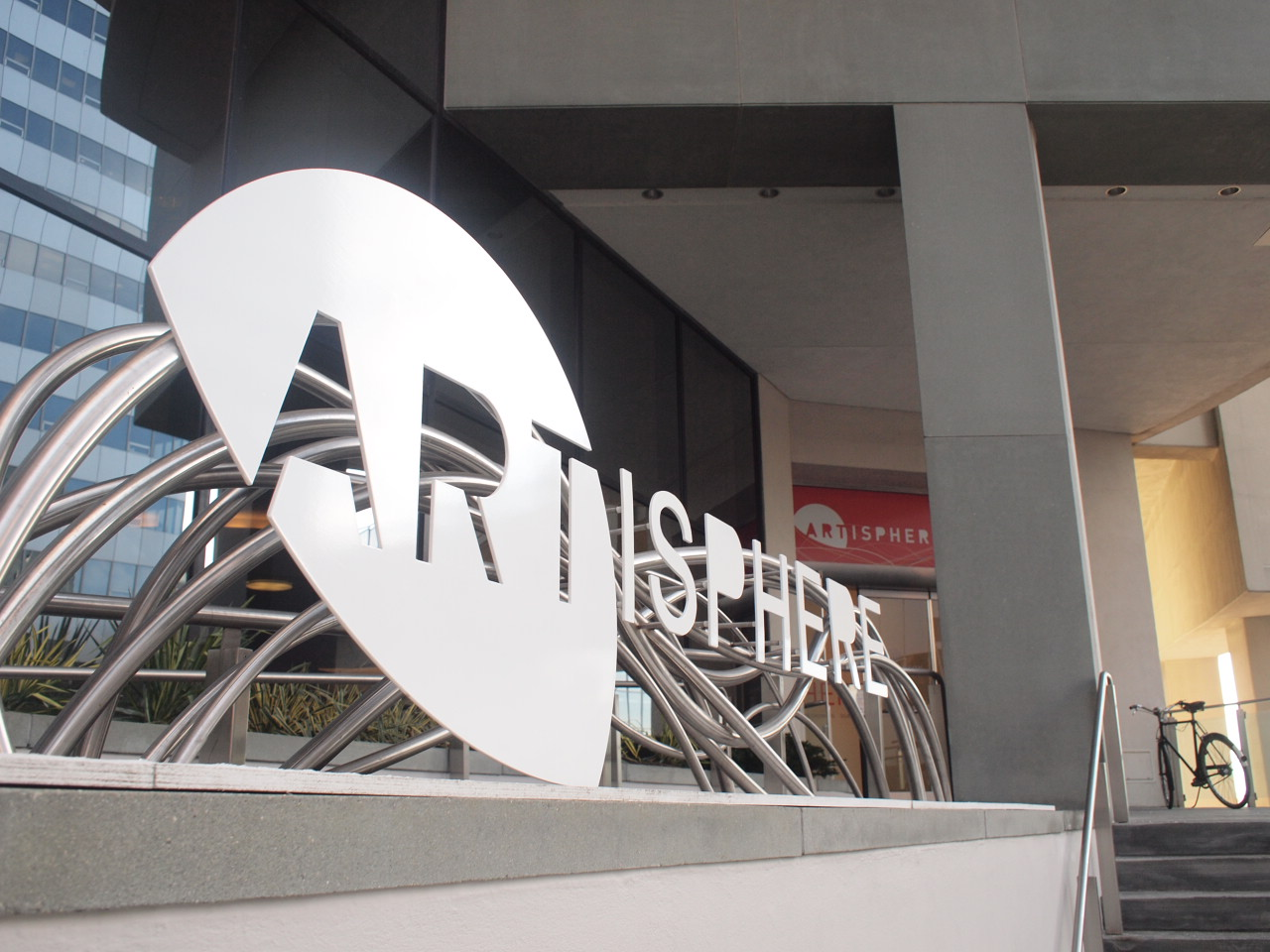 Entrance to the Artisphere. 1101 Wilson Blvd. Arlington, VA 22206